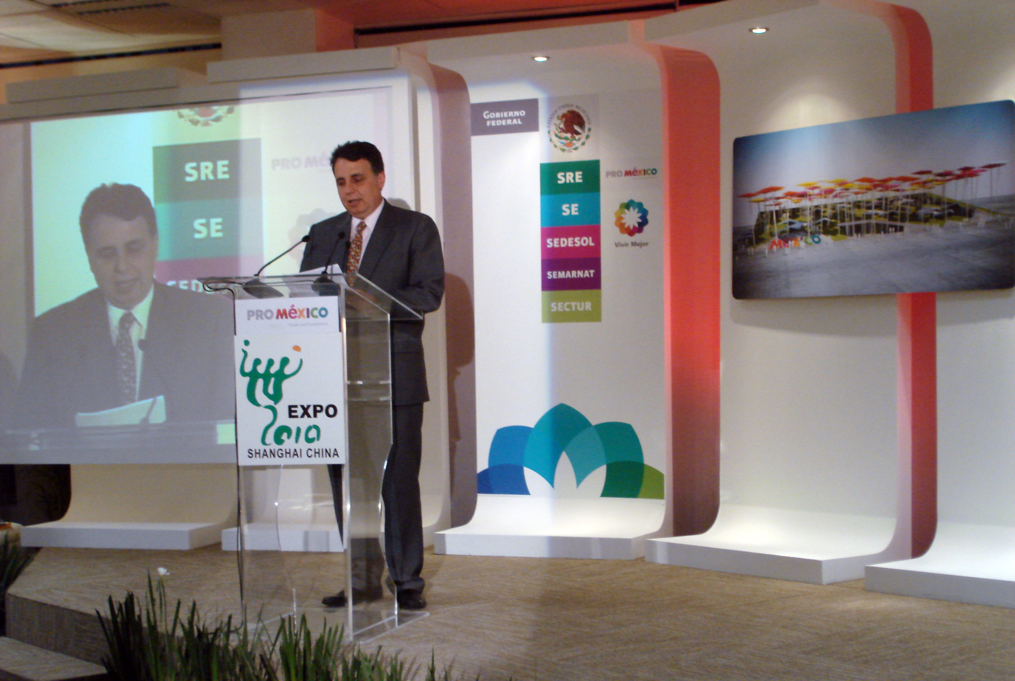 Presentation of the Mexican pavilion for Expo 2010 Shanghai.